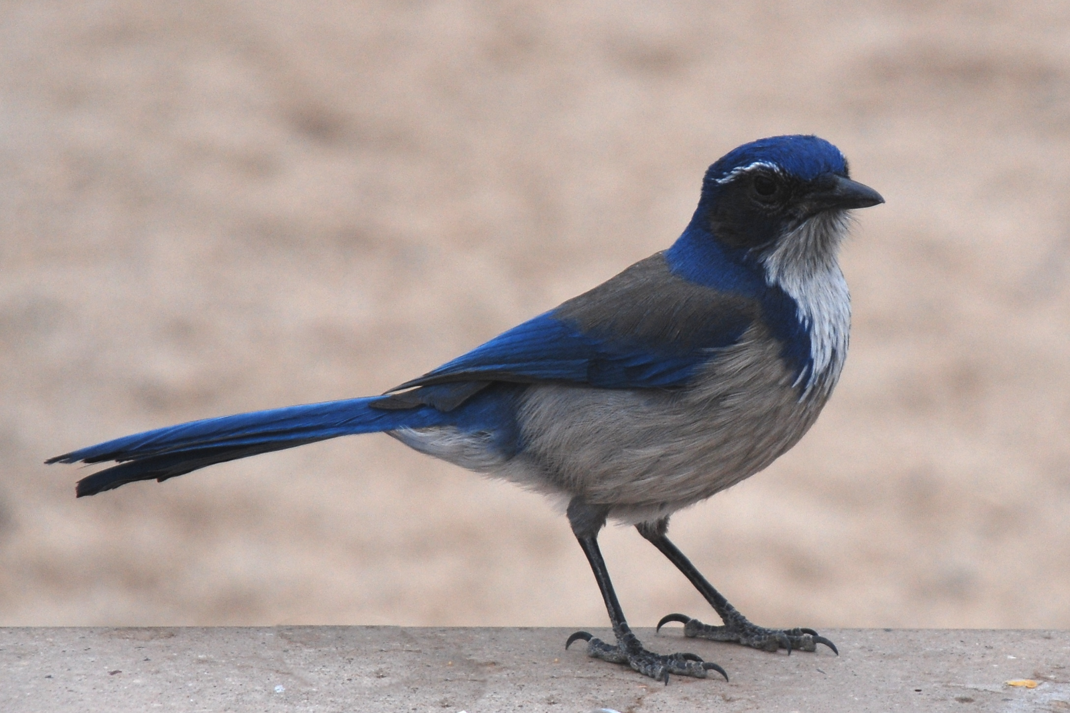 Western Scrub Jay (Aphelocoma californica) Joshua Tree National Park near Hidden Valley Campground